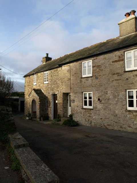 Digory Isbell’s cottage, Trewint "Let us go to yonder house, where the stone porch is, and ask for something" John Nelson, a Yorkshire stonemason and one of John Wesley's itinerant preachers, made this suggestion to his colleague John Downes on August 29th 1743, as Trewint had no inn. Wesley himself later visited this cottage on six occasions. According to , "there is no other place in Cornwall, and few in the country, where the authentic atmosphere of early Methodism can be so keenly felt". The cottage was restored in 1950 and is now a museum, and has the message "You are welcome; please walk in (remembering that this is a place of worship)". In fact, the museum, on Wesley Way, an attractive back lane through the small village, is currently closed.